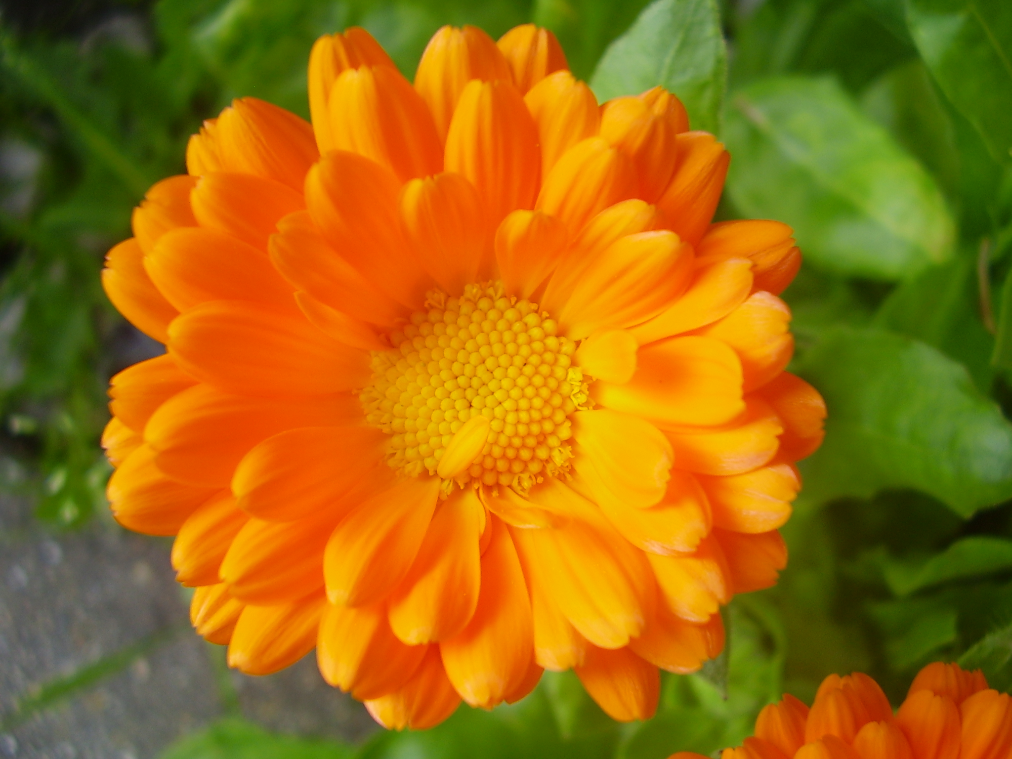 Calendula officinalis flower